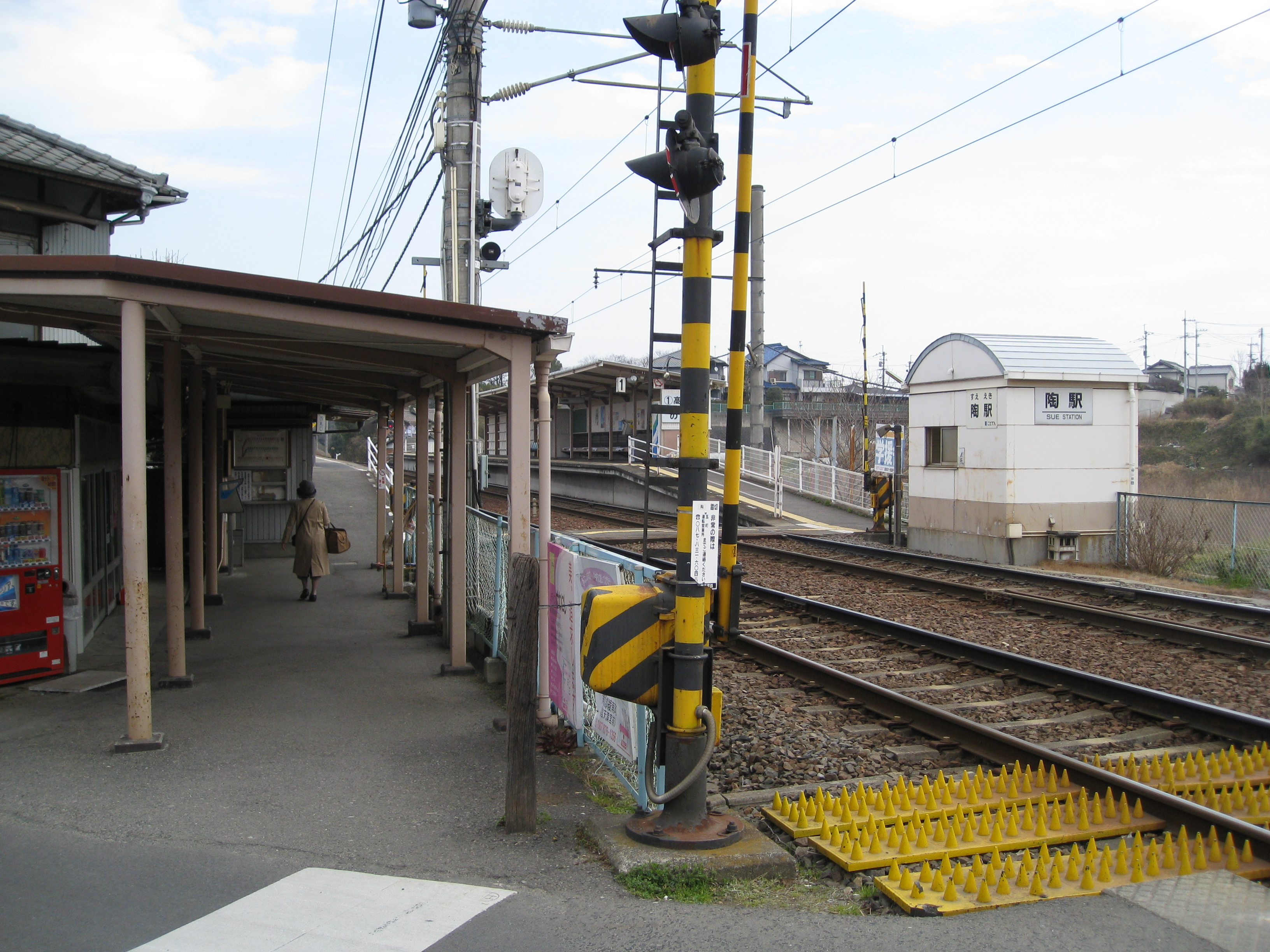 Sue Station in Ayagawa, Kagawa, Japan. It is the station on the Kotohira Line operated by Takamatsu-Kotohira Electric Railroad.